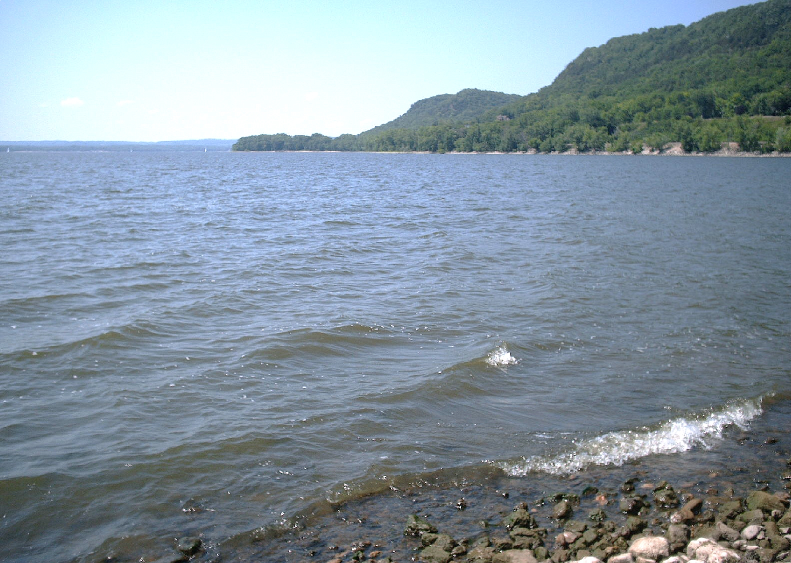 Photo I took 2006-07-08 of Lake Pepin on the Mississippi River between Minnesota and Wisconsin. CC & GFDL.